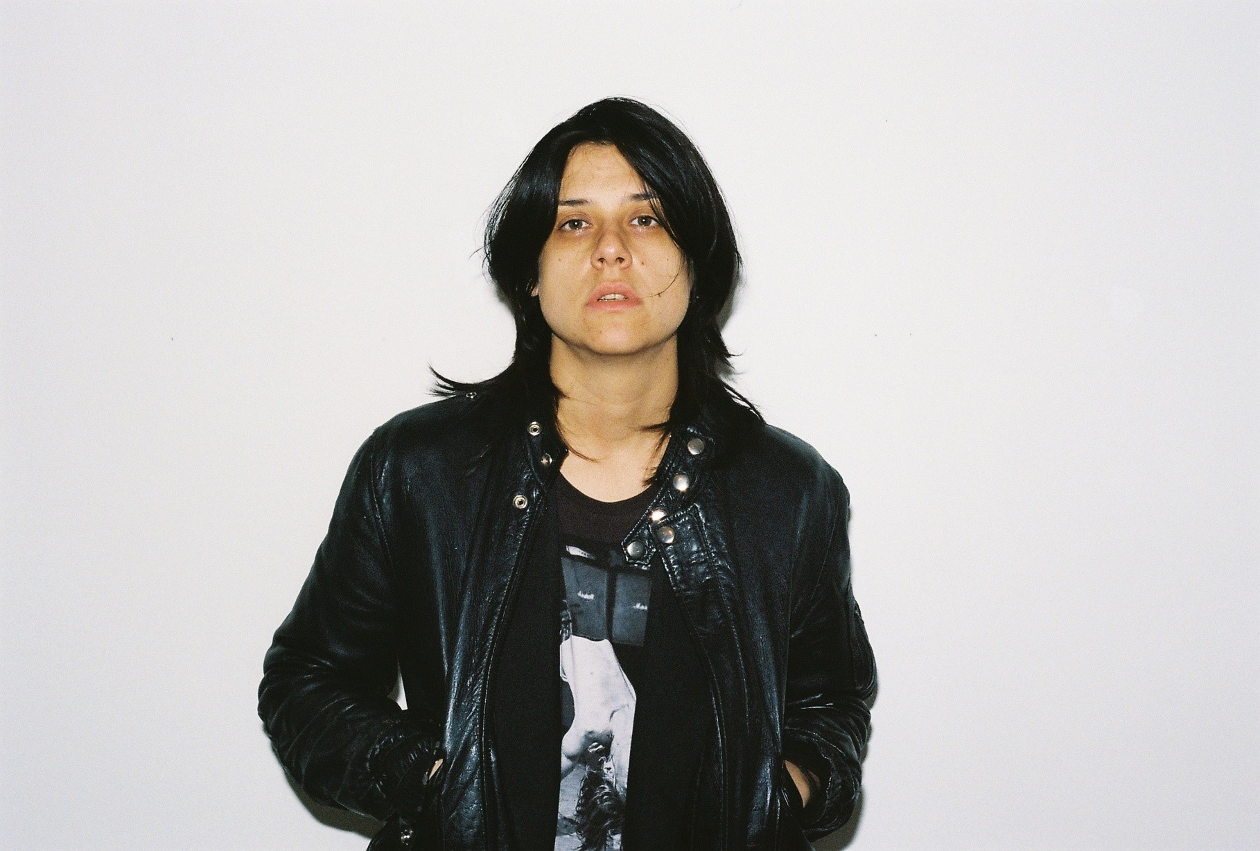 Image taken in Belgrade, Serbia, december 2010. Photo taken with Nikkpormat F2, by Lazara Marinkovic